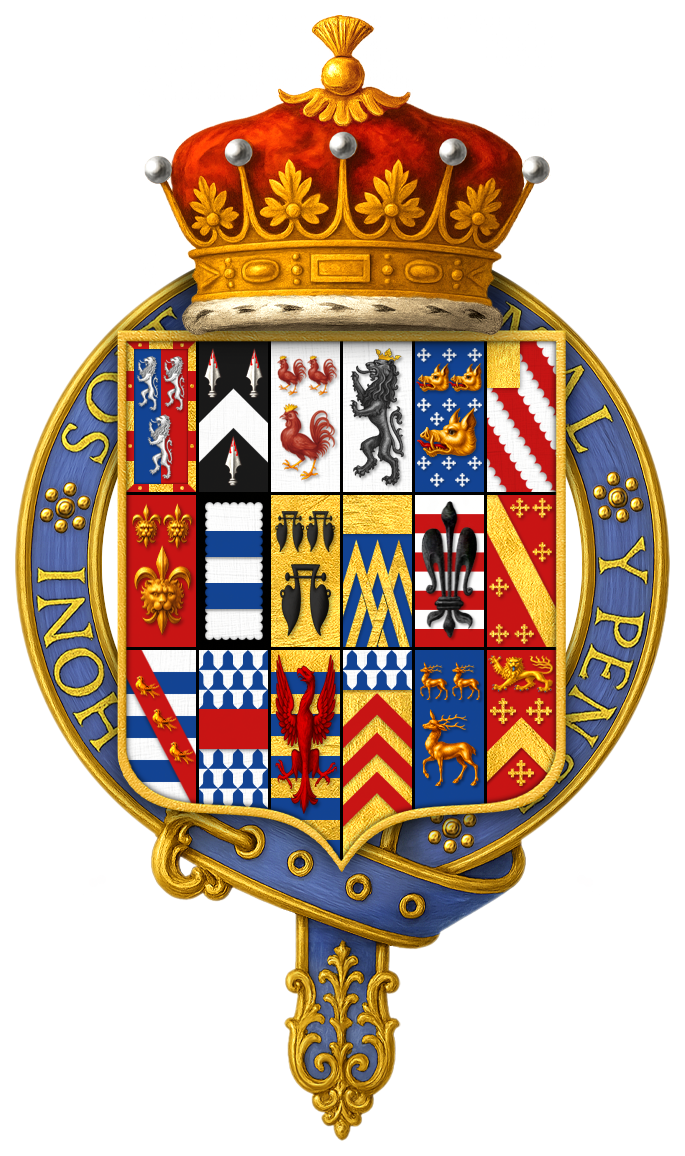 Quartered arms of Sir Henry Herbert, 2nd Earl of Pembroke, KG Quartering based on the 16th century portrait of Pembroke. Henry Herbert, 2nd Earl of Pembroke